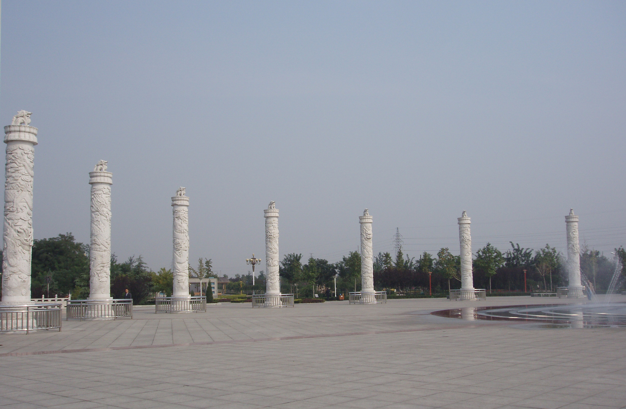 Luquan City (鹿泉市) under Shijiazhuang, China